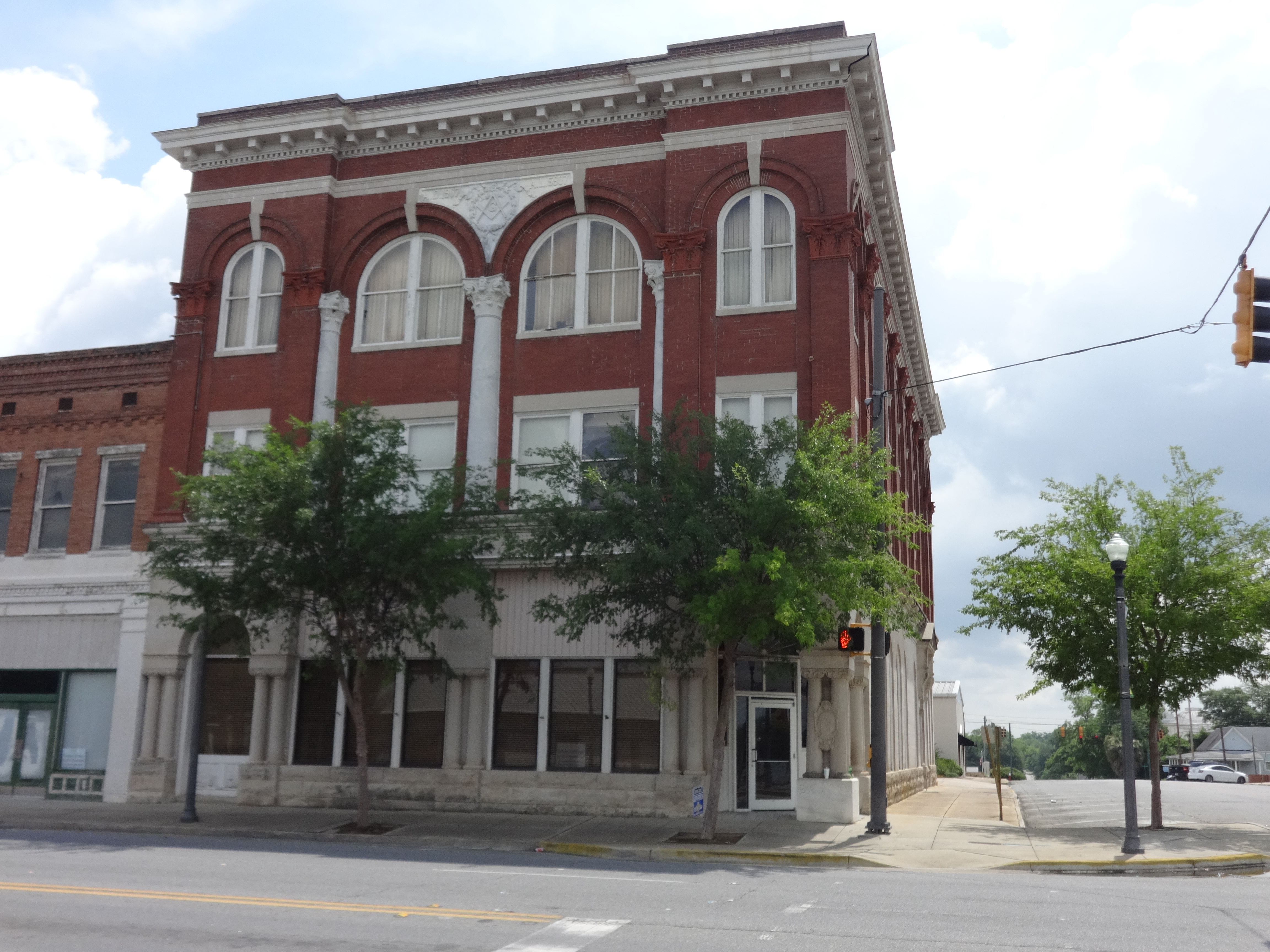 Masonic building, Cordele, Crisp County, Georgia